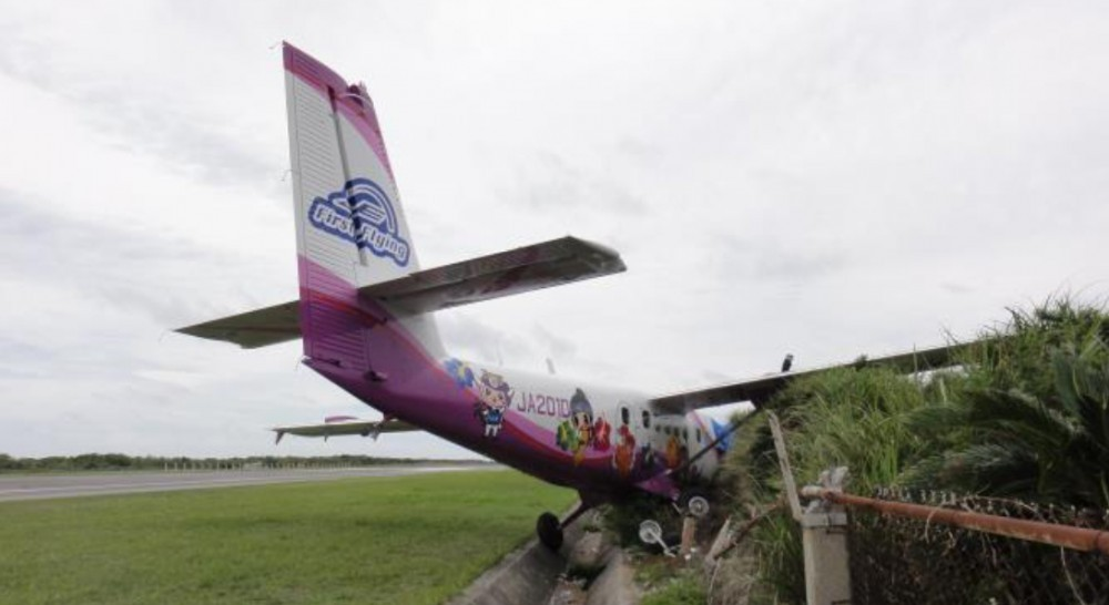 First Flying Flight 101 wreckage